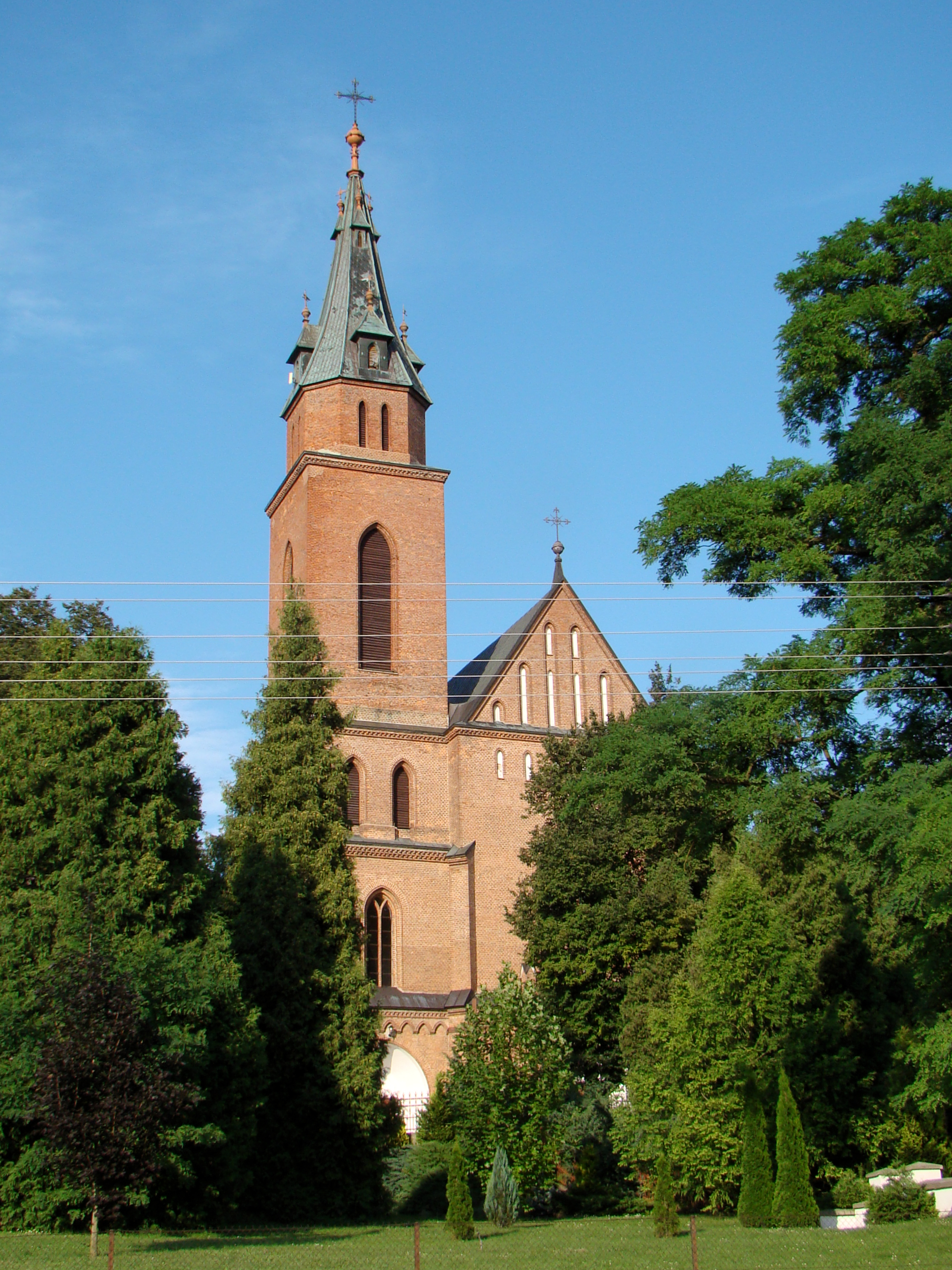 Trzeszczany Pierwsze - Chourch of the Holy Trinity and Nativity of the Virgin Mary